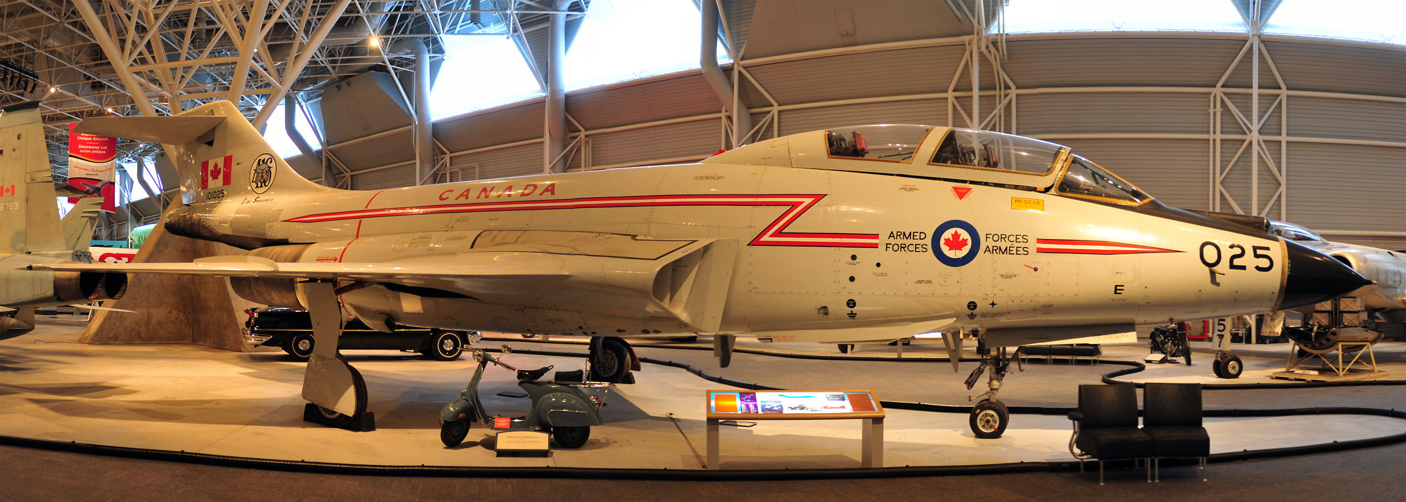 Royal Canadian Air Force McDonnell CF-101 (”Voodoo”) fighter aircraft exhibited at the Canada Aviation and Space Museum.